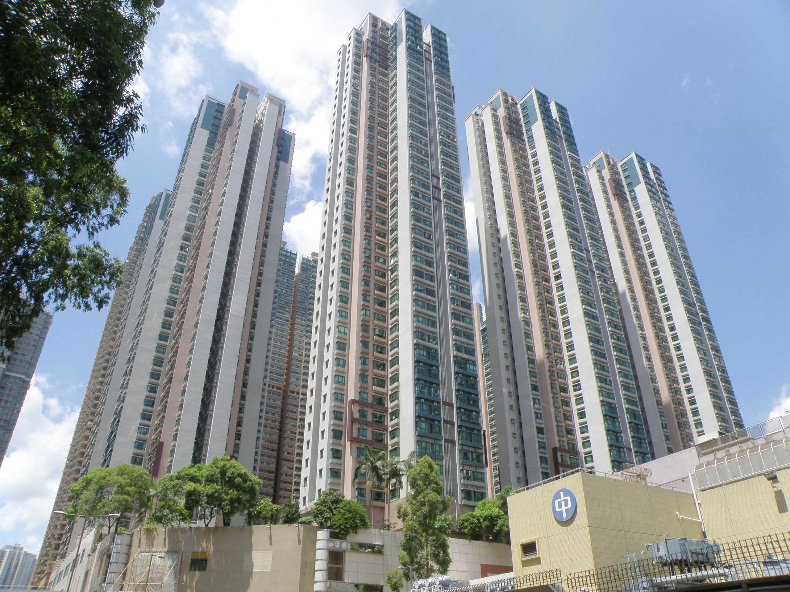 East Point City in Hang Hau, Hong Kong.